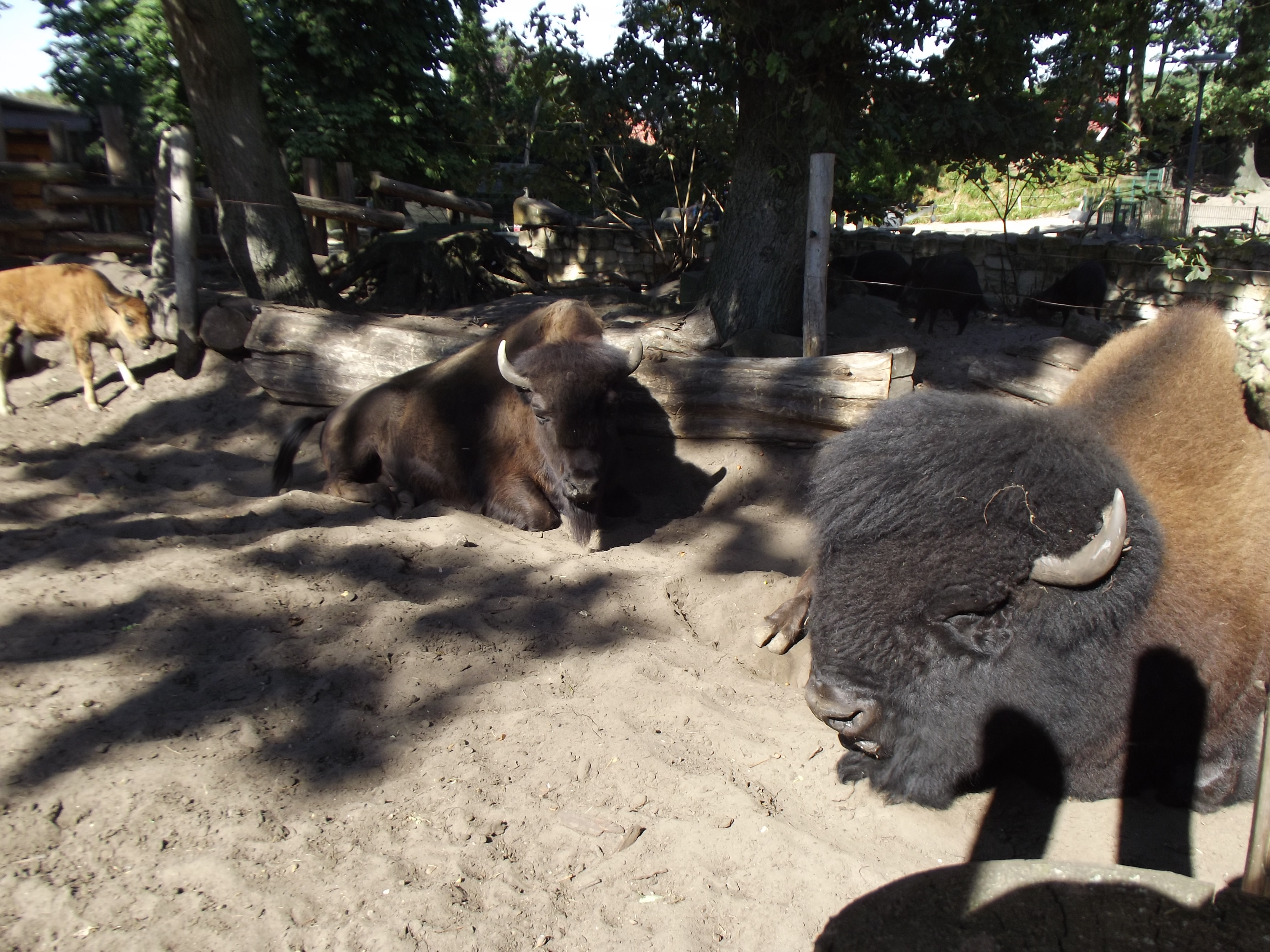 Taken in the Tierpark Nordhorn